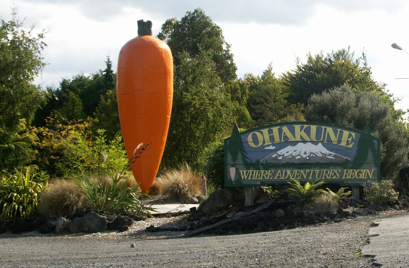 The big Carrot, Ohakune, NZ. Photograph taken and uploaded by Paul Moss, Photographer, Artist